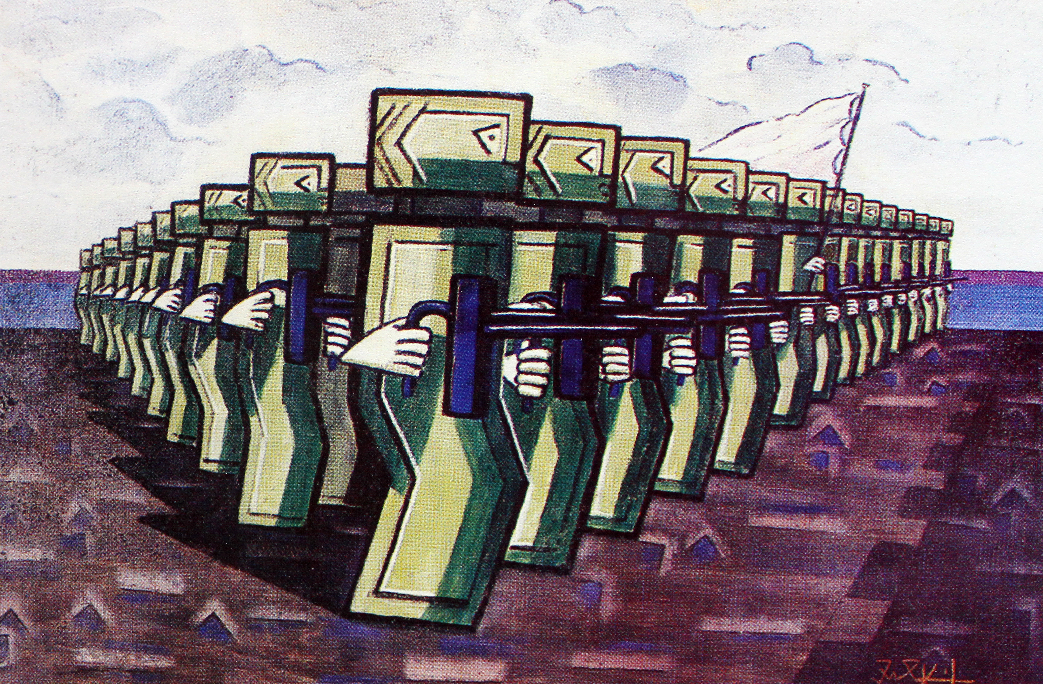 This is under the ownership of Kosova National Art Gallery. We have been given the rights to freely use the data available in its published book, Kosovo Contemporary Art